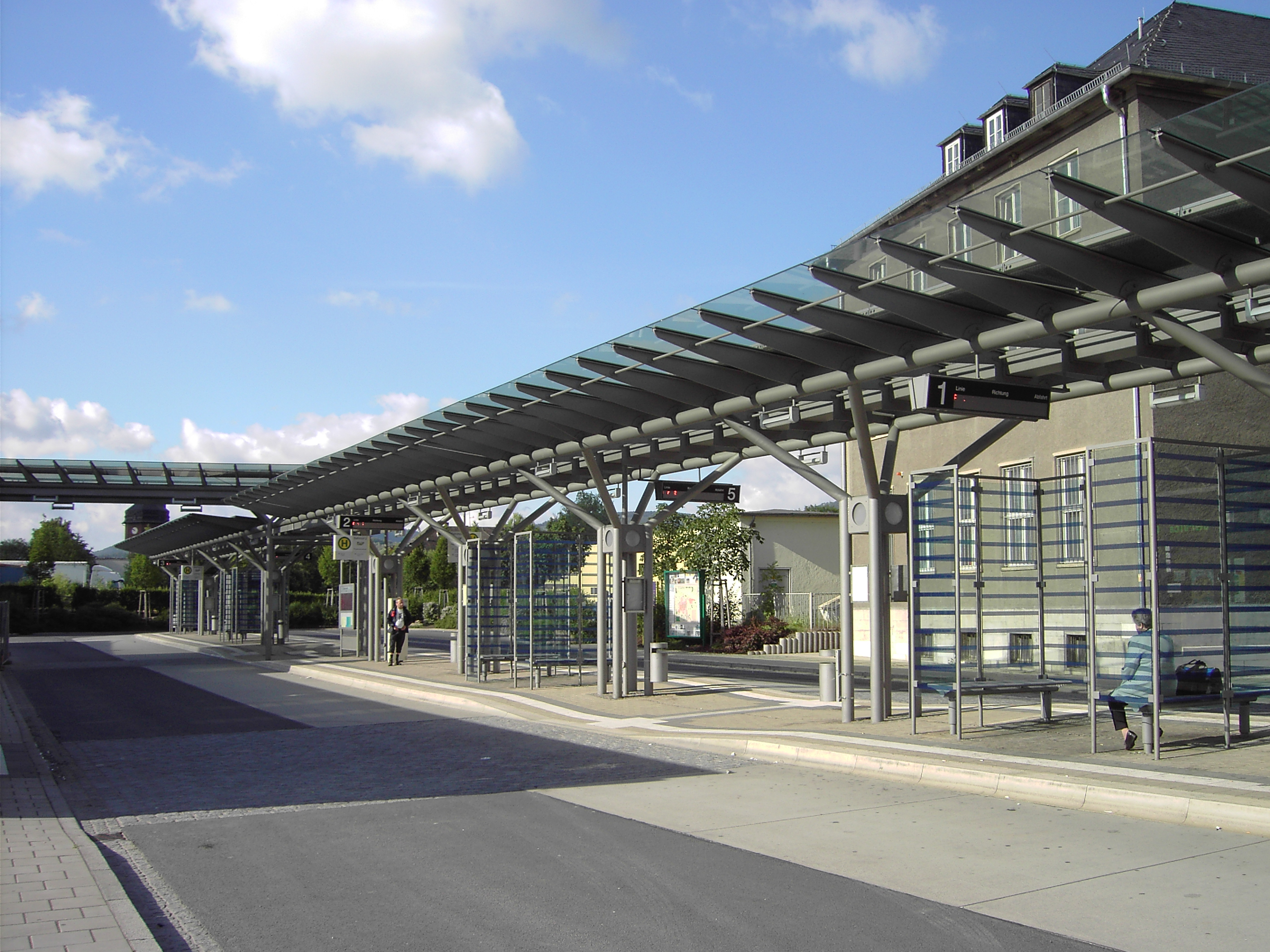 Bus station at the train station of Saalfeld